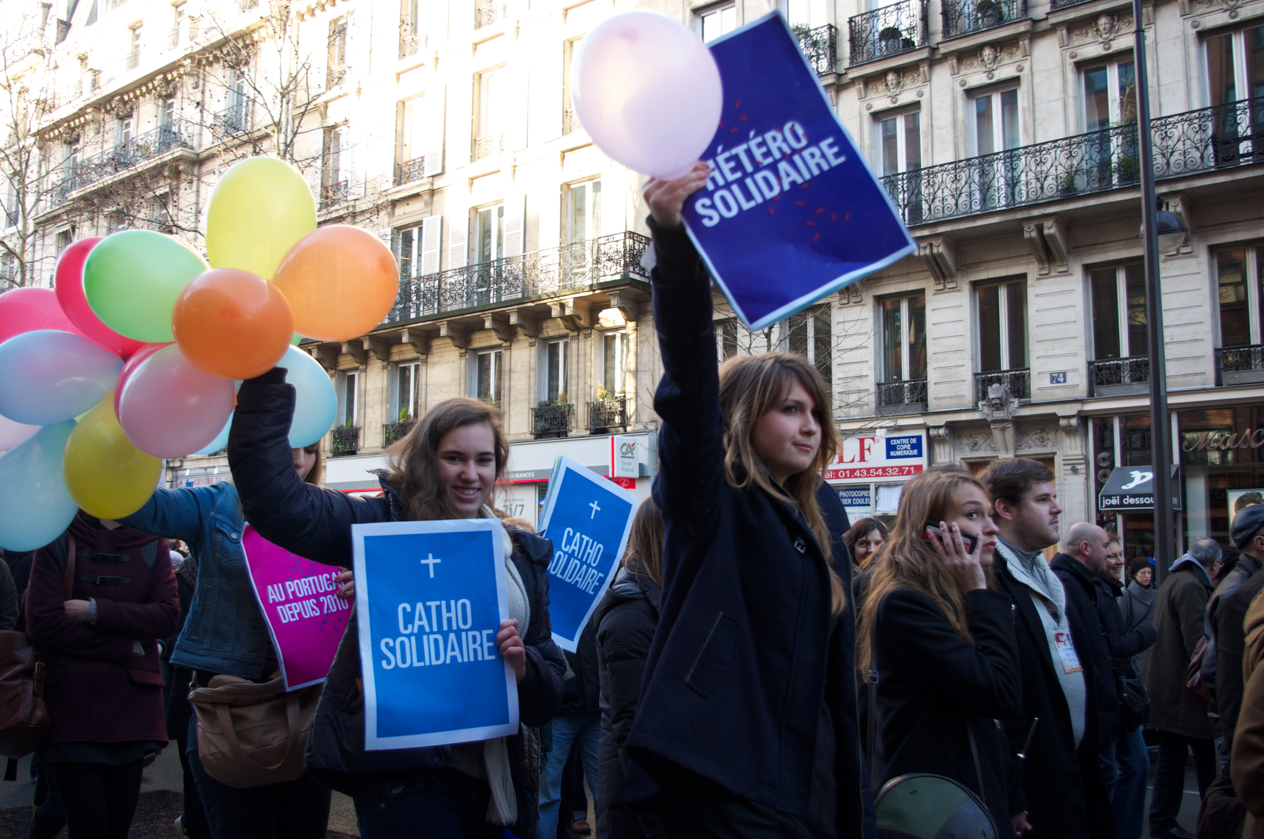 Demonstration in favour of same-sex marriage in France, Paris, France, January 27, 2013